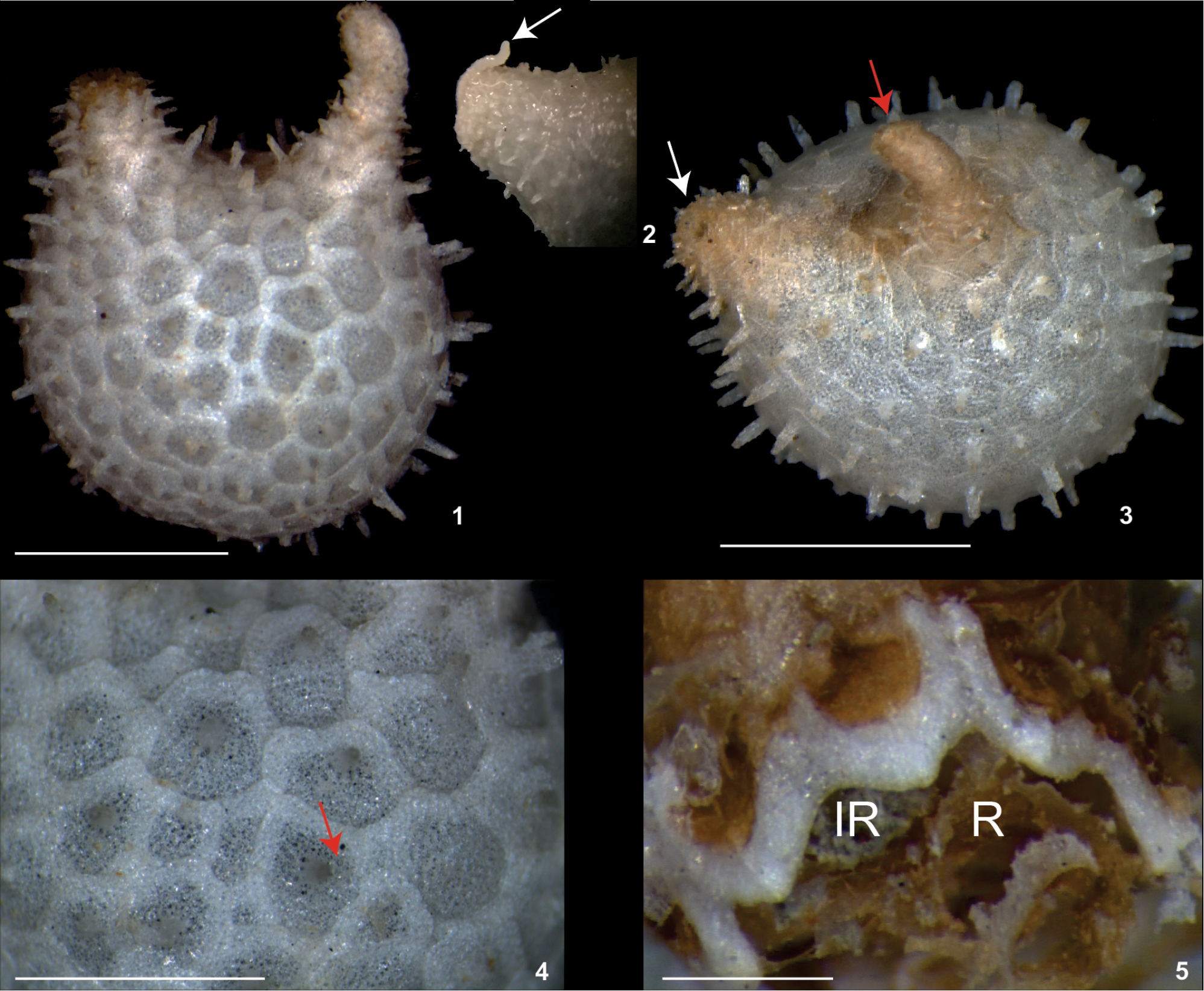 Ypsilothuria bitentaculata (Ludwig, 1893).Figures 1–5. Ypsilothuria bitentaculata bitentaculata (MZUSP 1306): (1) lateral view of the body; (2) detail of one of the two elongated lateral tentacles detail of the tentacle (white arrow); (3) dorsal view of a specimen preserved in ethanol (note oral and anal siphons, white and red arrows, respectively); (4) detail of the ossicles from the body wall (the red arrow indicates the spire); (5) calcareous ring. R, radial plate. IR, interradial plate. Scale bars: 1–3 = 5 mm, 4 = 1 mm, 5 = 0.5 mm.